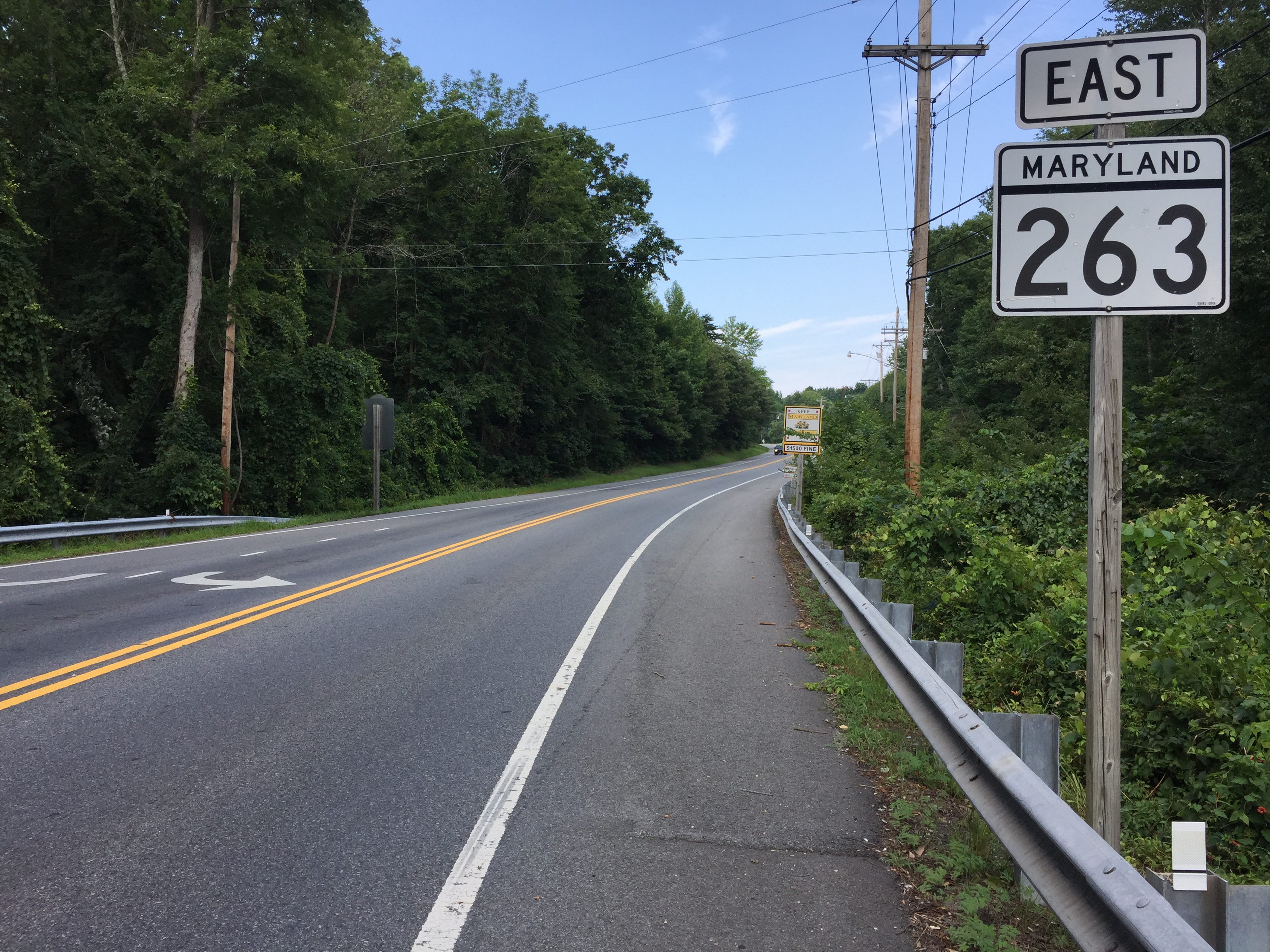 View east along Maryland State Route 263 (Plum Point Road) just east of Maryland State Route 2 and Maryland State Route 4 (Solomons Island Road) in Calvert County, Maryland